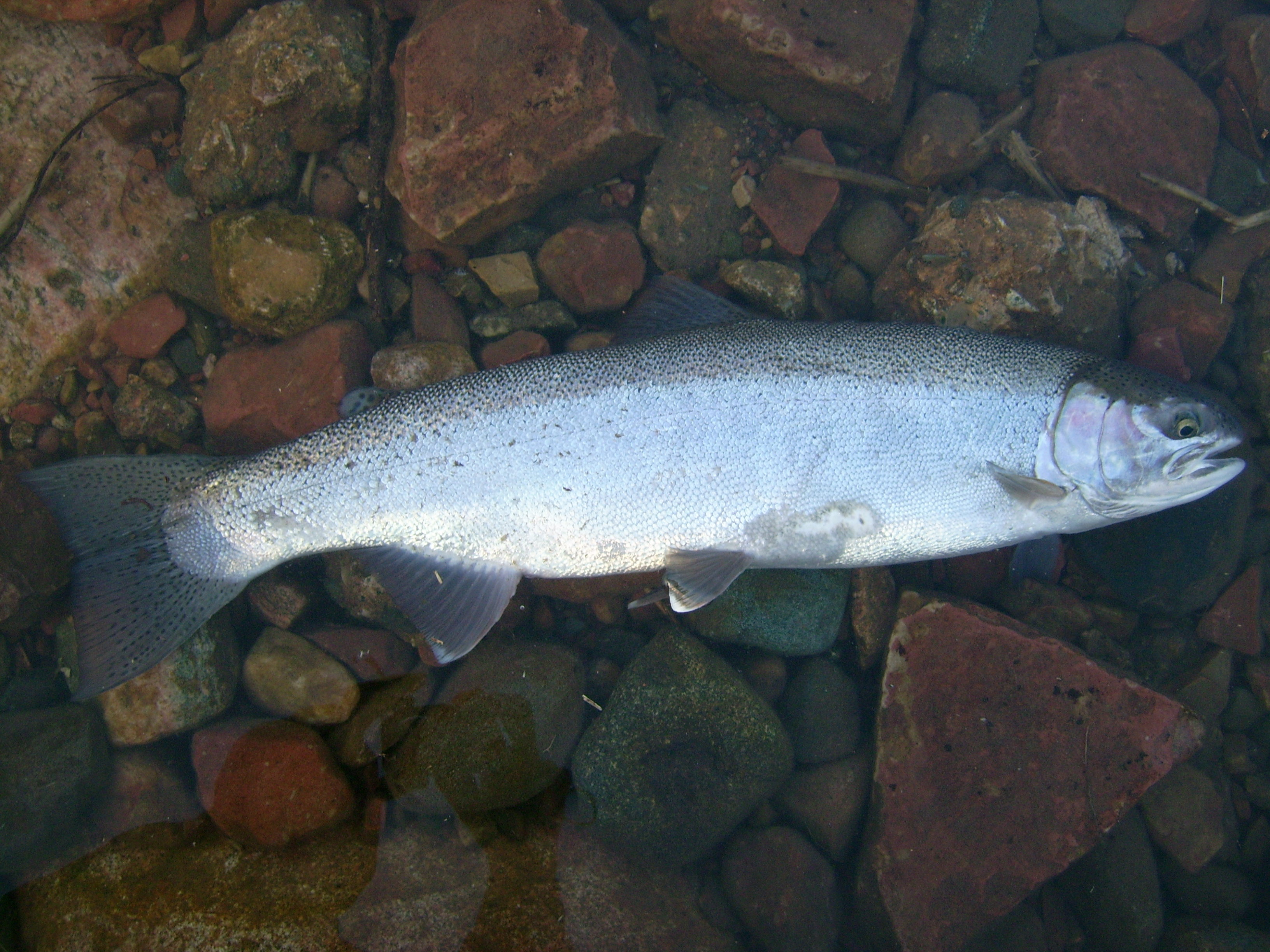 Rainbow trout 'Steelhead' (Oncorhynchus mykiss), St. Mary's Rapids, Lake Huron. Introduced species.